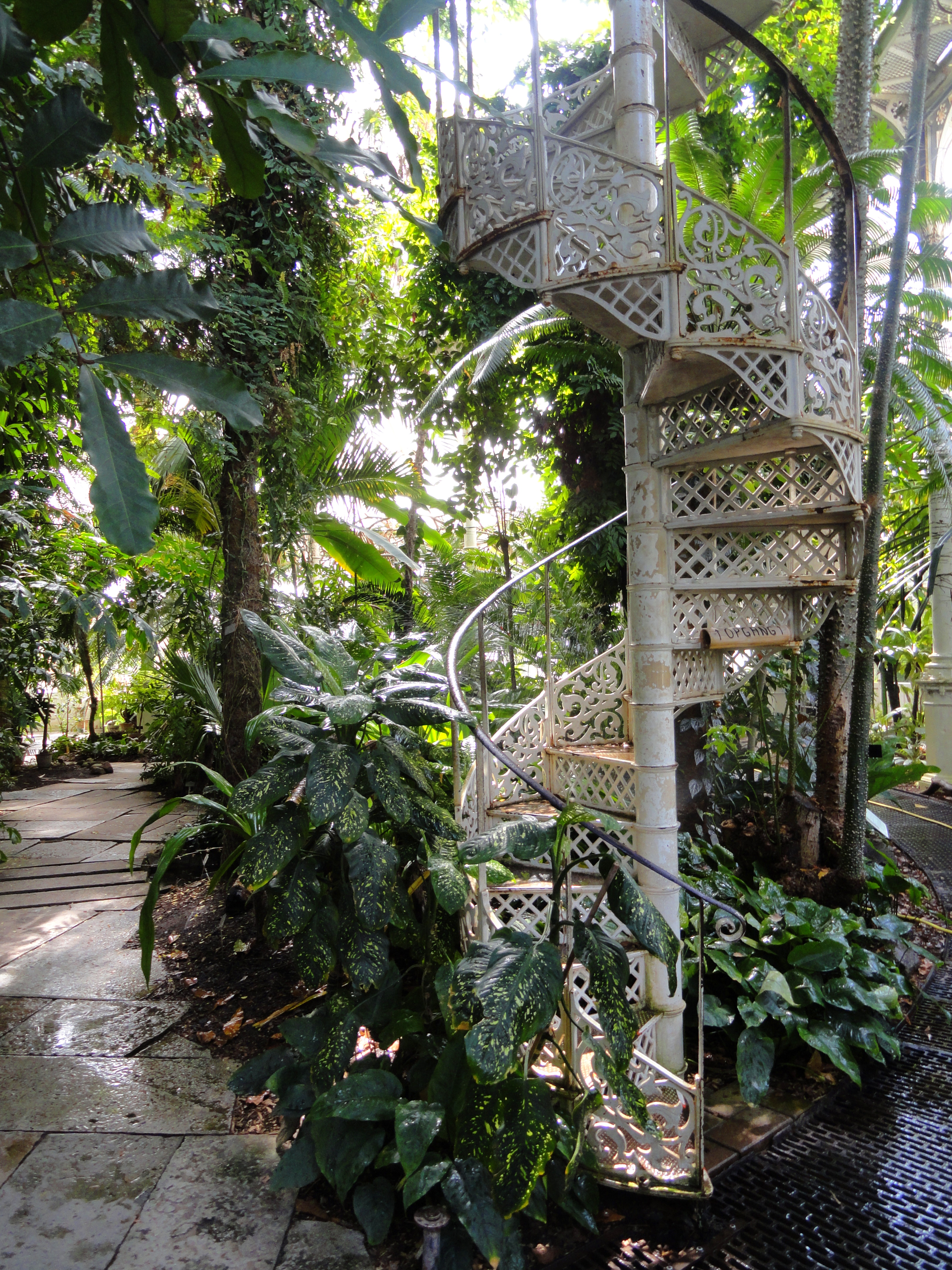 Palm House, University of Copenhagen Botanical Garden, Copenhagen, Denmark.